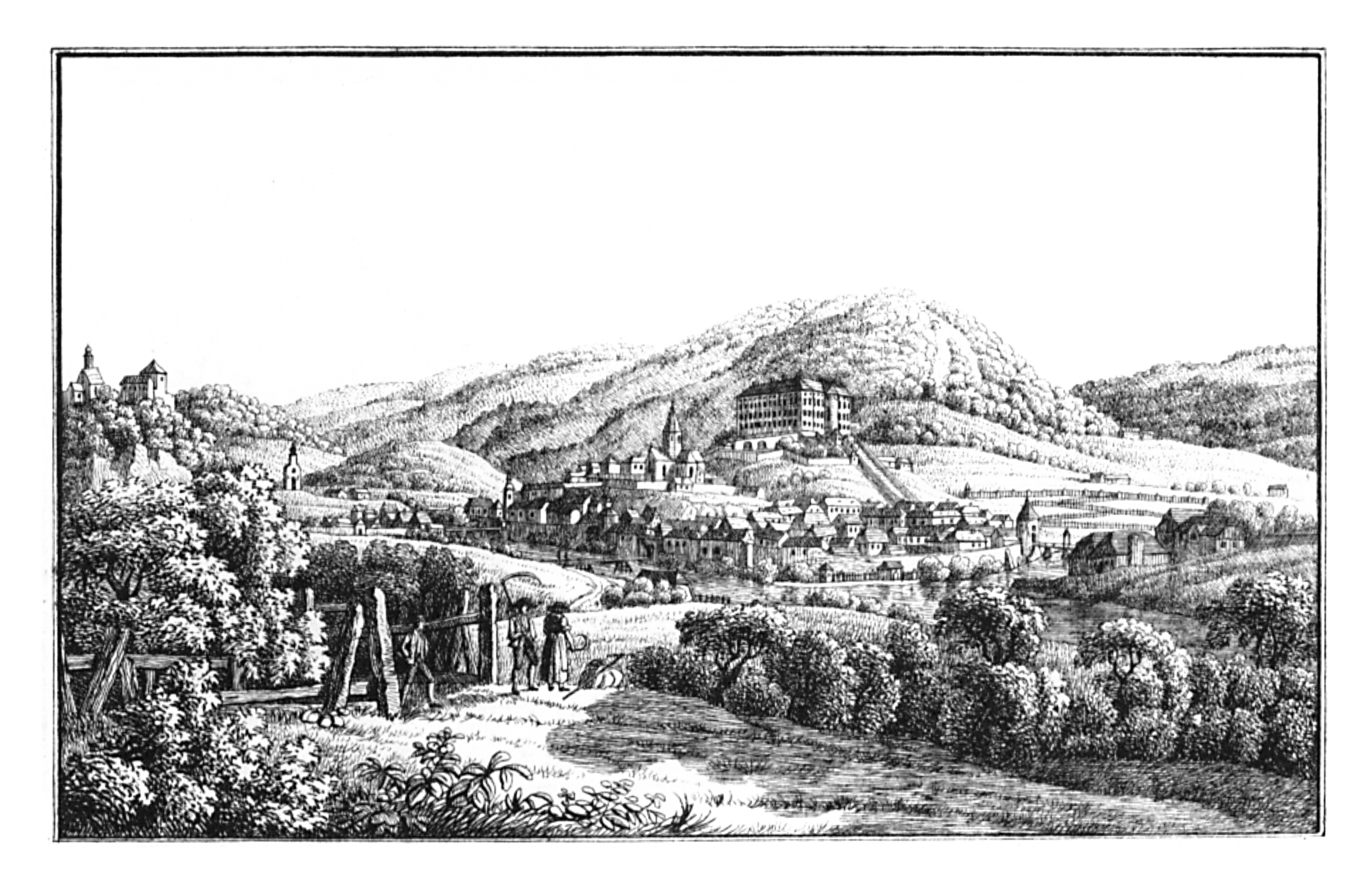 J. F. Kaiser - lithographirte Ansichten der Steyermärkischen Städte, Märkte und Schlösser, Graz 1824-1833 Joseph Franz Kaiser (1786–1859) Alternative names J. F. KaiserDescriptionAustrian printer and editorDate of birth/death 11 March 1786 19 September 1859Location of birth/death Graz (Styria) GrazAuthority control : Q1499963 VIAF: 30629353 ISNI: 0000 0000 3083 0153 LCCN: n87141671 GND: 129880159 NLP: A24960305 WorldCat creator QS:P170,Q1499963 . Scanprojekt Community Projektbudget 2012 This scan or this PDF-file was created within the GLAM-project Bookscanning, supported by Wikimedia Germany and Wikimedia Austria as a part of the community-project to capture books, documents and pictures which are not eligible to copyright or for which the copyright has expired. This document describes or depicts an object which is located in Austria today. Send requests for uncompressed scans to Hubertl. This work is in the public domain in its country of origin and other countries and areas where the copyright term is the author's life plus 100 years or fewer. You must also include a United States public domain tag to indicate why this work is in the public domain in the United States. This file has been identified as being free of known restrictions under copyright law, including all related and neighboring rights.